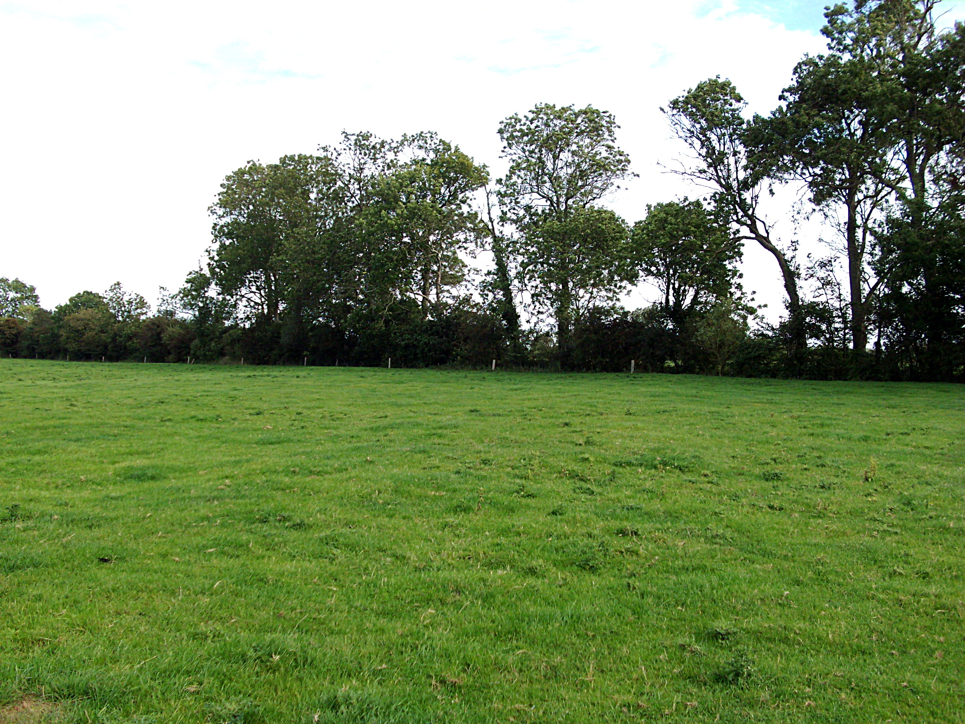 Brecourt Manor in Normandy. It was made famous by HBO's Band of Brothers.